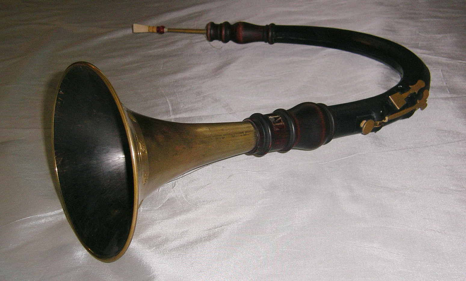 A modern copy of an oboe da caccia.